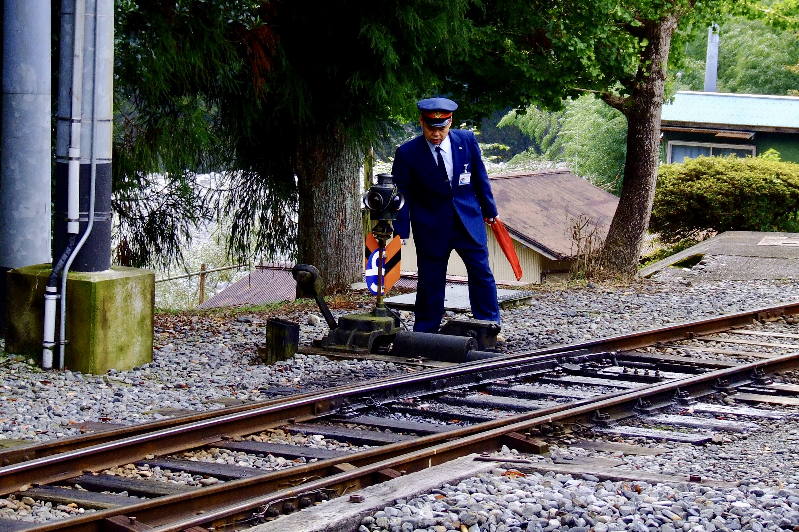 A Manual switch(Okuizumi Stn.)